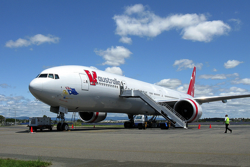 V Australia's First Boeing 777-3ZGER (Didgeree Blue) at Brisbane Airport.